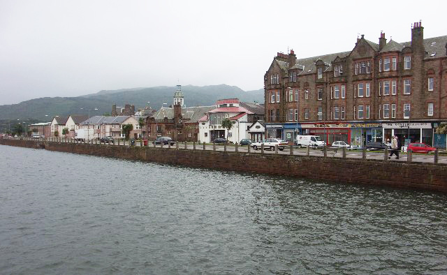 Campbeltown seafront